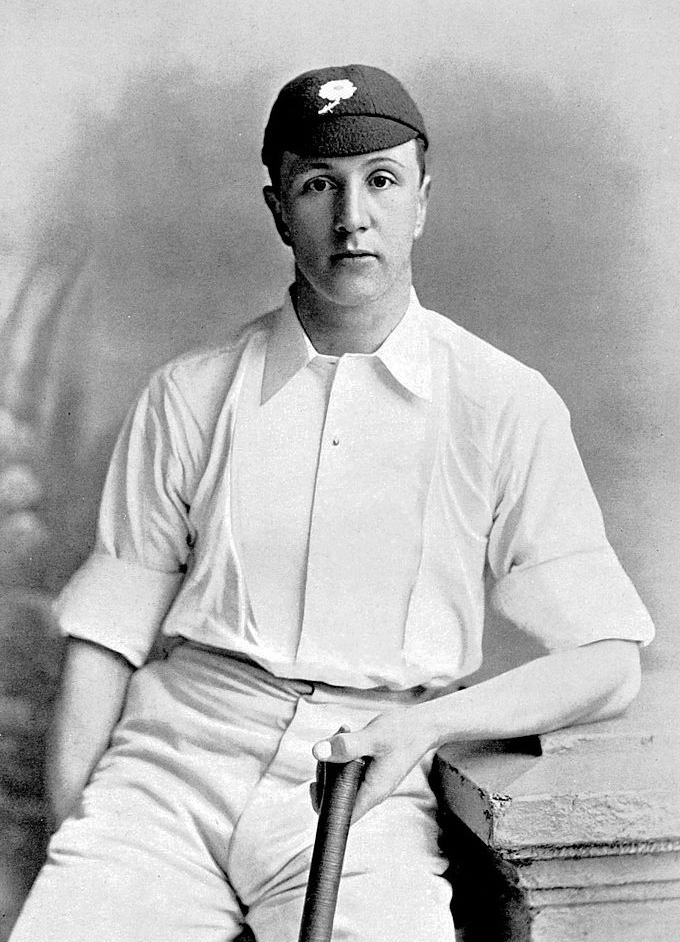 Sport, Cricket, Circa 1895, Frank Mitchell, Cambridge University (1894-1897) also played for Yorkshire (1894-1904)